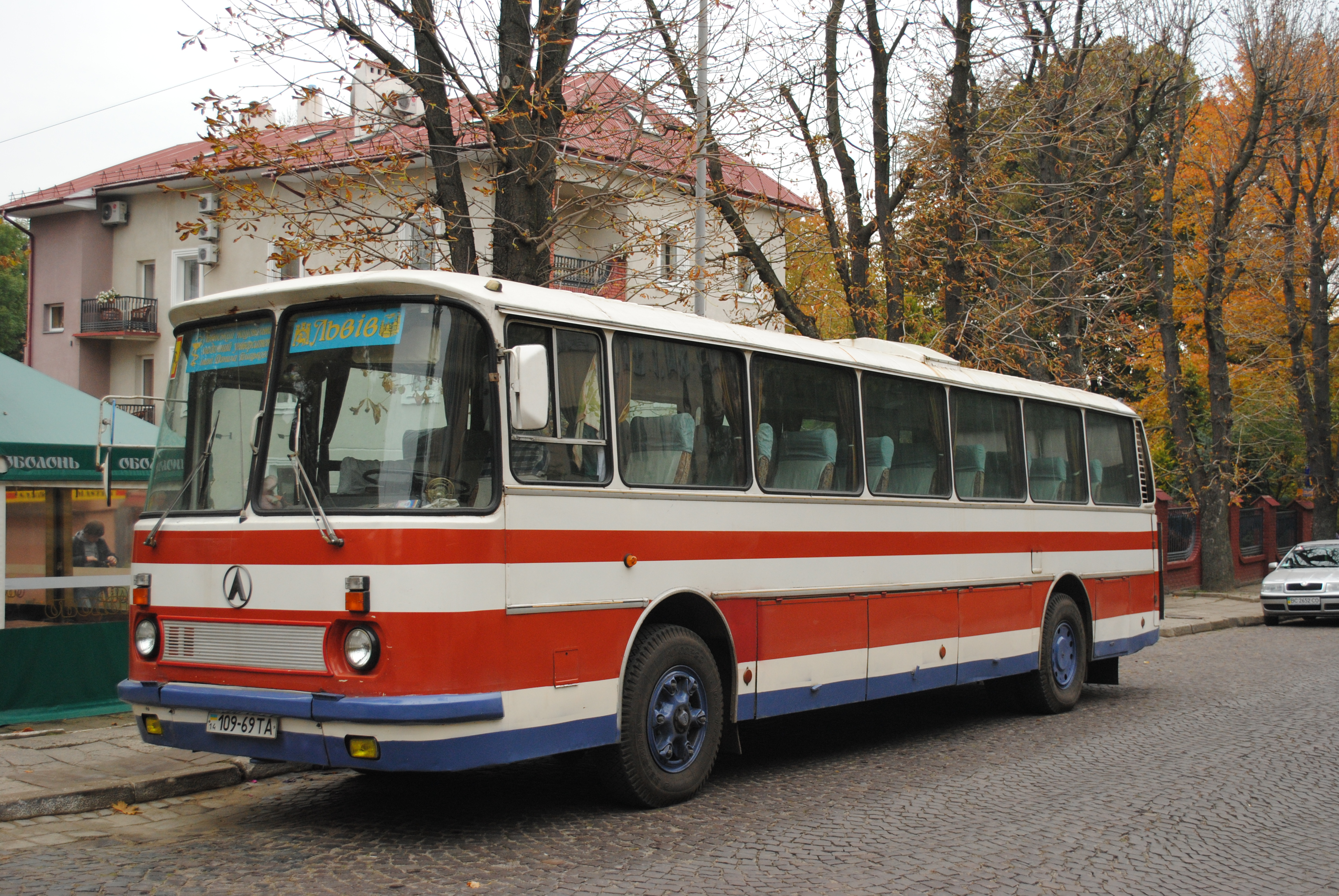 LAZ-699, owned by Lviv Medical University.